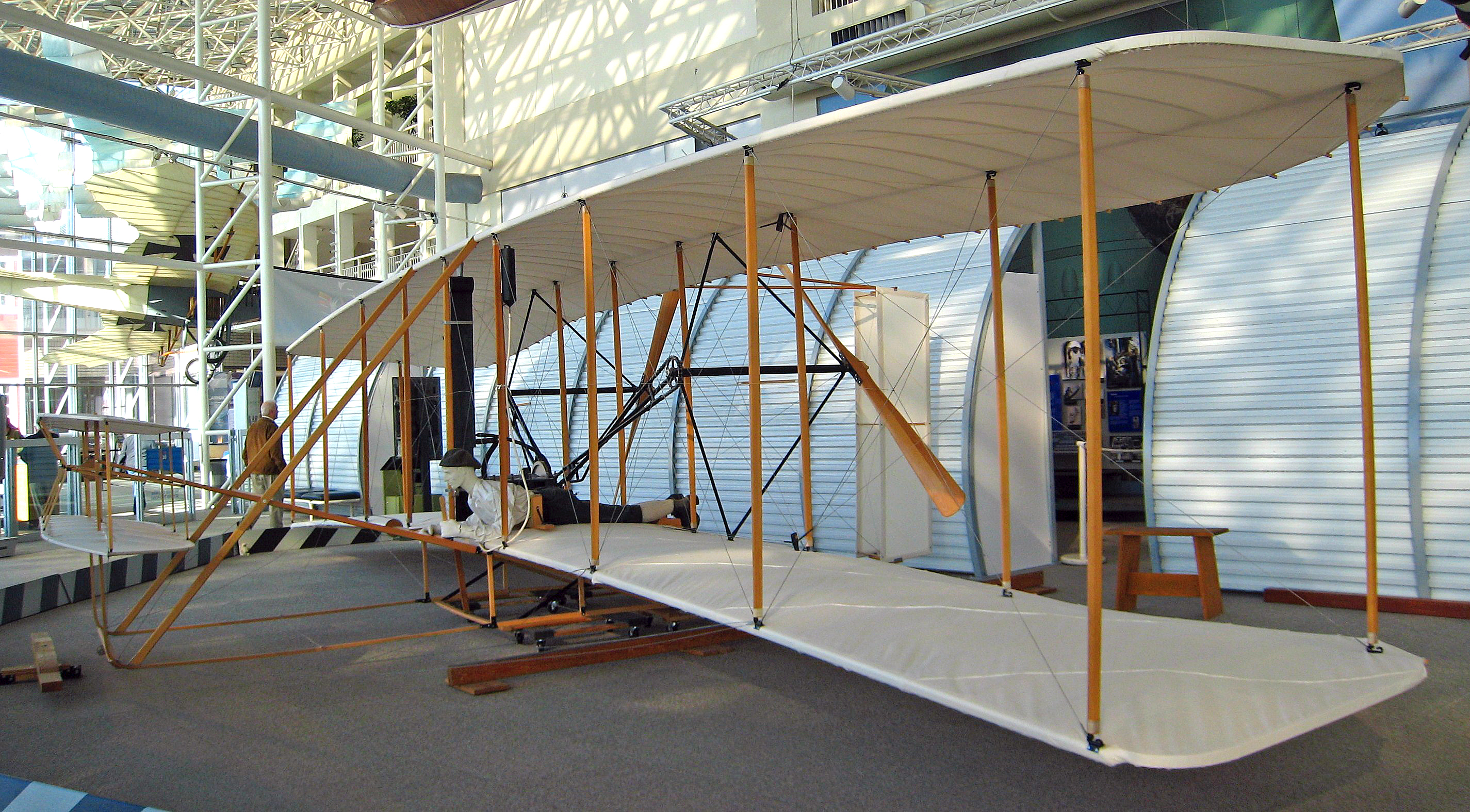 Replica of the 1903 Wright Flyer (a.k.a. Kitty Hawk, after the location of its maiden flight in North Carolina) at The Museum of Flight, Seattle, WA.